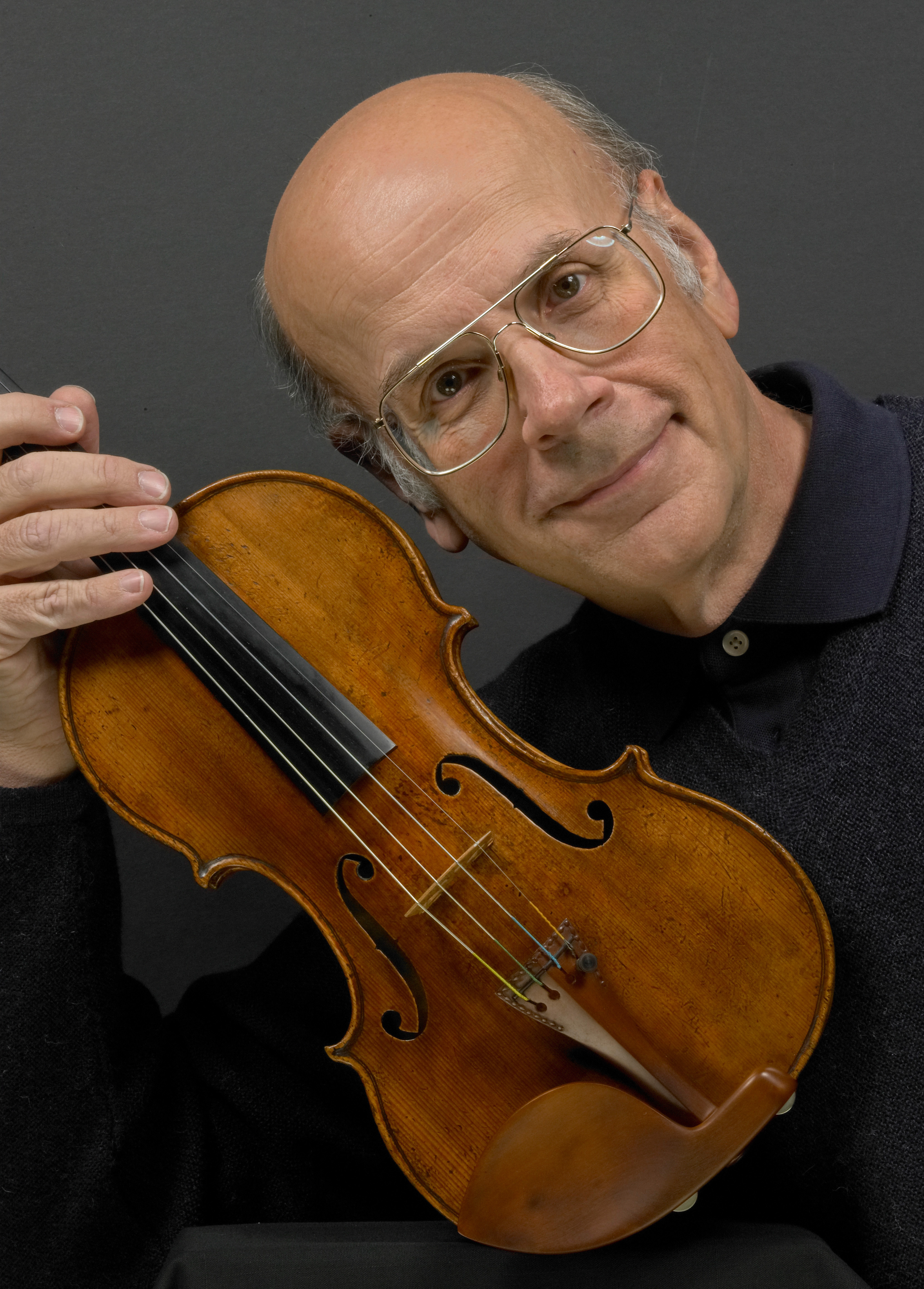 This is my own photograph of David L. Fulton taken in 2008. I wish to add it to my biographical entry.